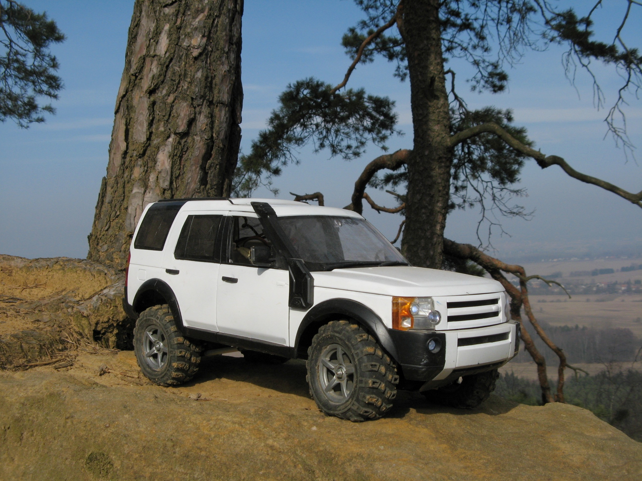 Land Rover Discovery 3, chassis Tamiya CC-01, scale 1:10